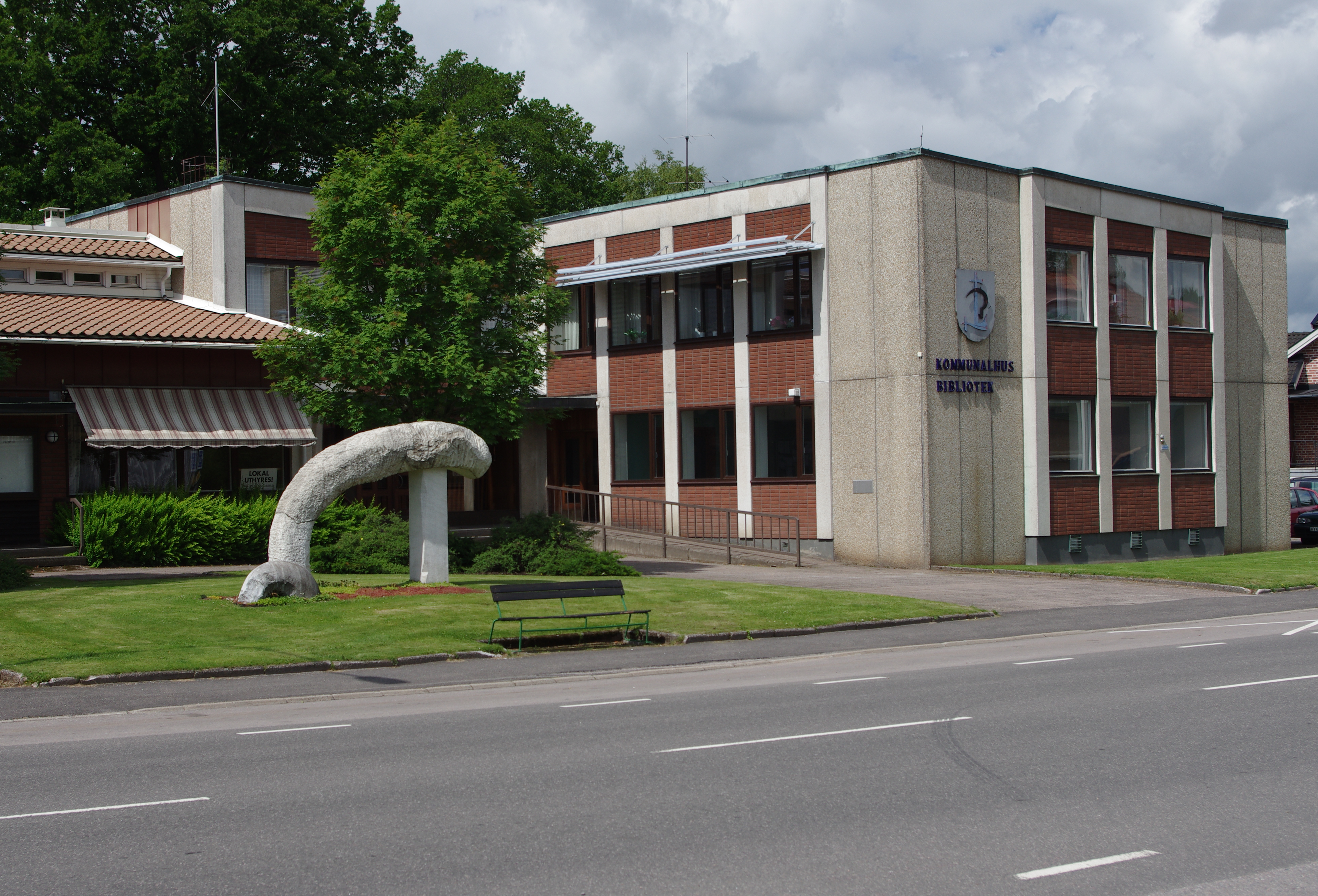 Floby town hall and library.